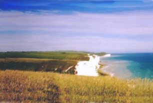 The Seven Sisters near Beachy Head in the South of England. Taken myself.